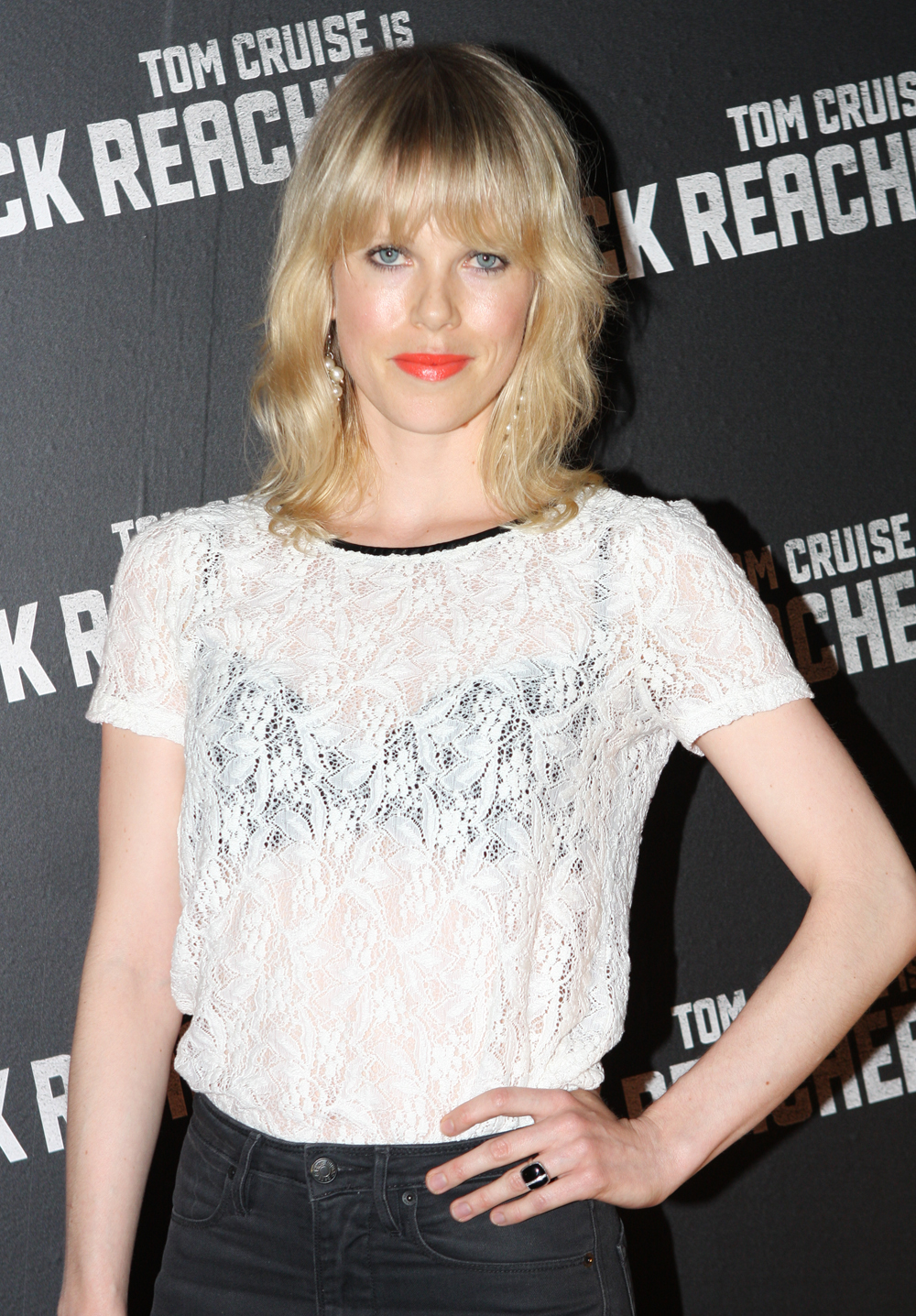 Alyssa McClelland (born 1981) is an Australian actress and filmmaker. McClelland was educated at Newtown High School of the Performing Arts in Sydney.